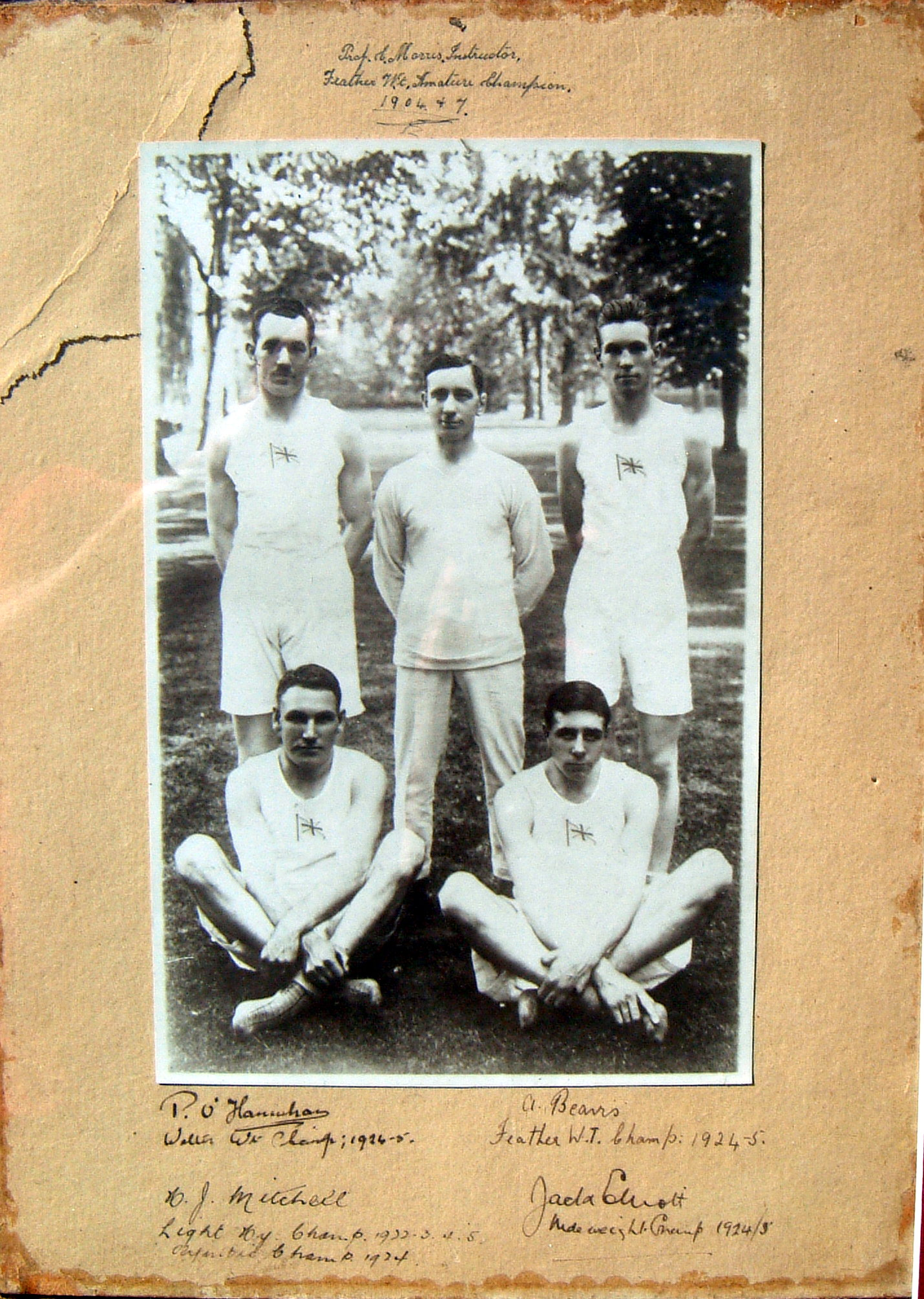 Professor Charles Morris with pupils.